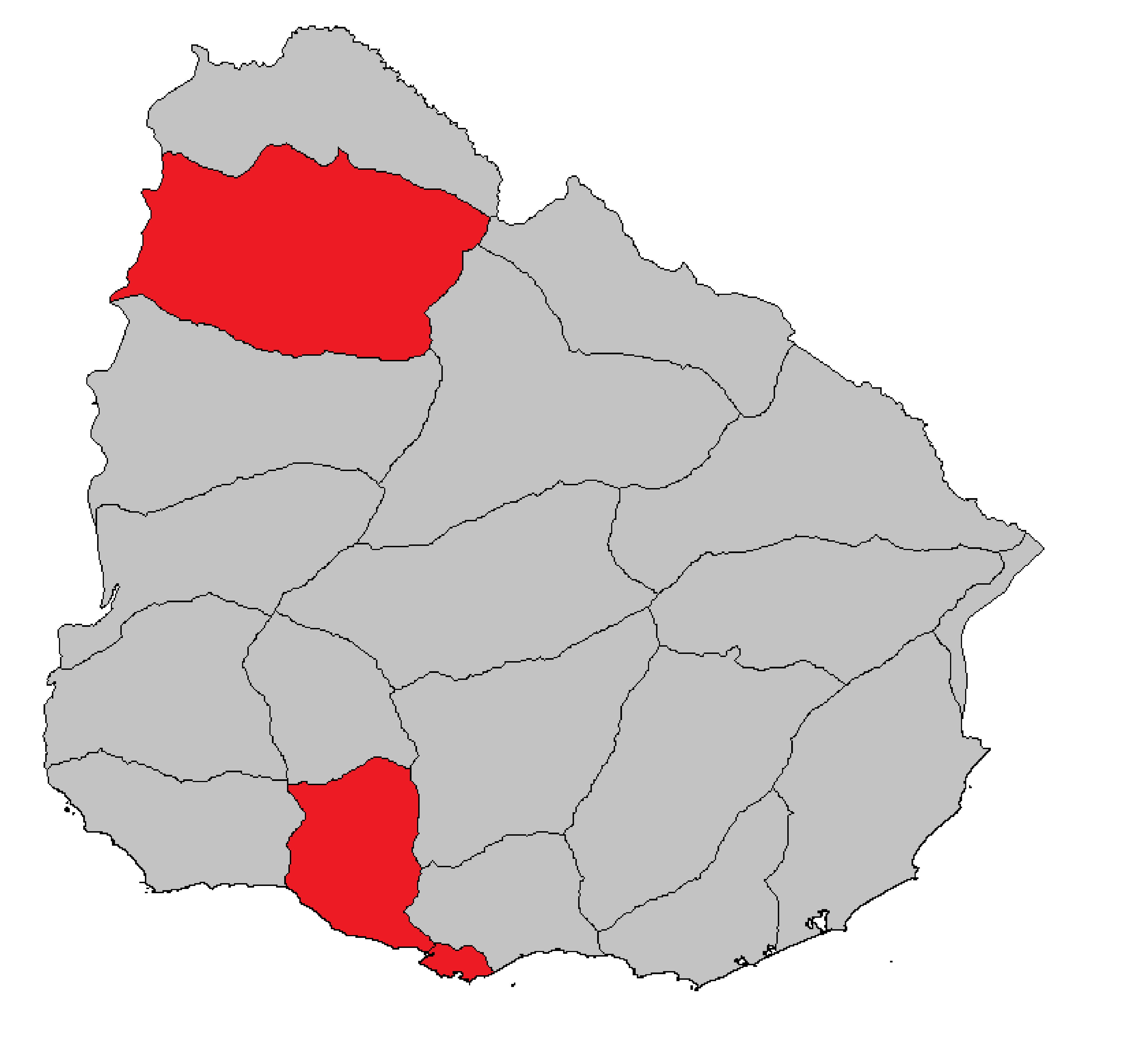 Dengue epidemic 2020 in the Eastern Republic of Uruguay